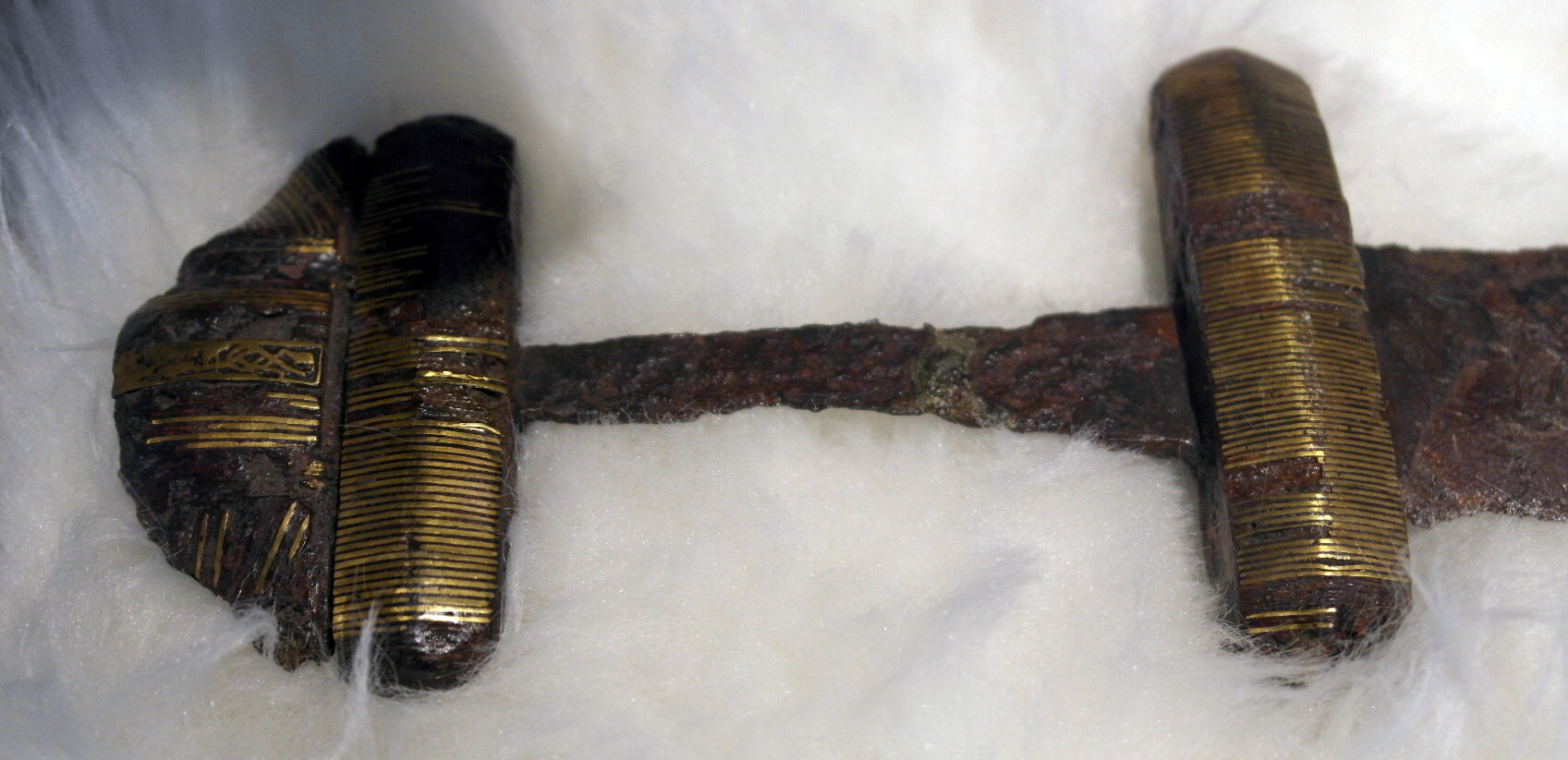 Viking sword hilt (750-850) from the river Meuse near Aalburg, the Netherlands. Collection of medieval objects of the Rijksmuseum van Oudheden in Leiden. Photographed in November 2014 at a Viking exhibition in Centre Céramique, Maastricht.